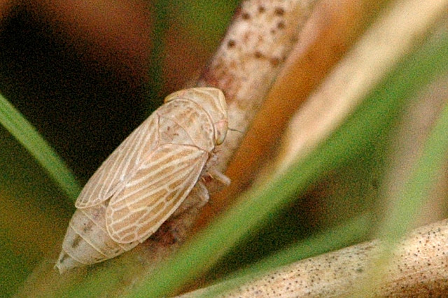 Neophilaenus lineatus from Commanster, Belgian High Ardennes .